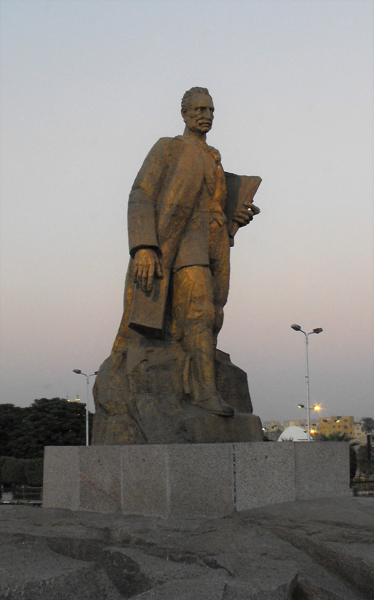 Abbas El-Akkad monument to aswan